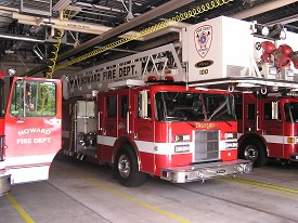 The fire trucks for Howard, Wisconsin